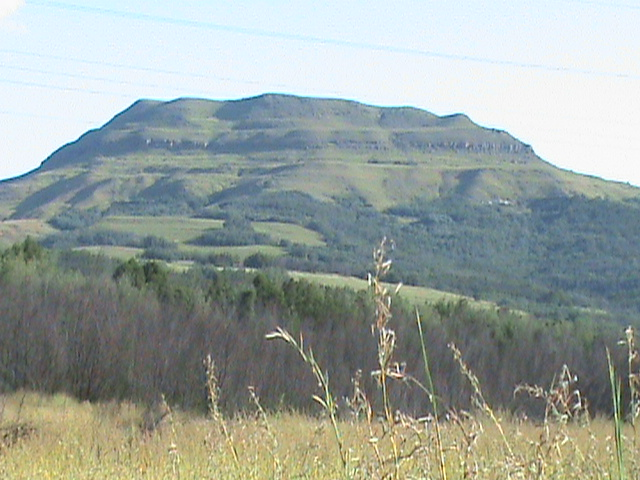 Majuba mountain where the battle of Majuba was fought in 1881